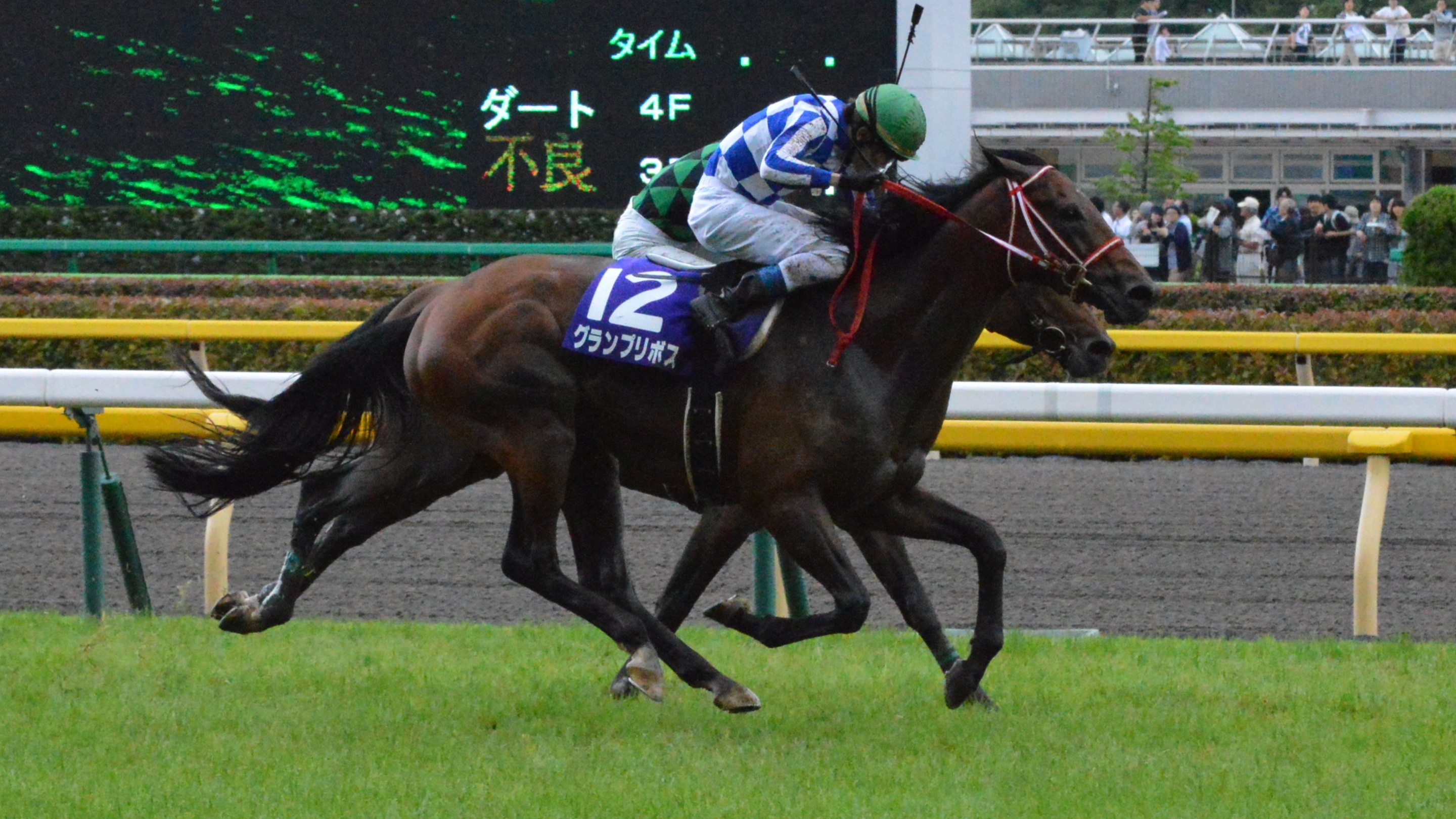 Japanese race horse Grand Prix Boss at Tokyo racecourse.